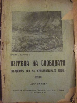 frontpage of book